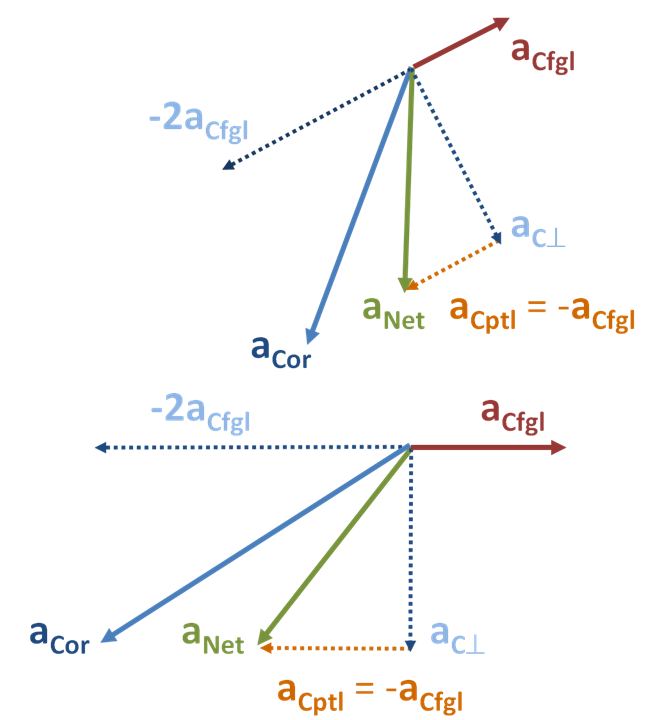 Vector relationships between Coriolis, centrifugal and net acceleration for cannonball on a turntable